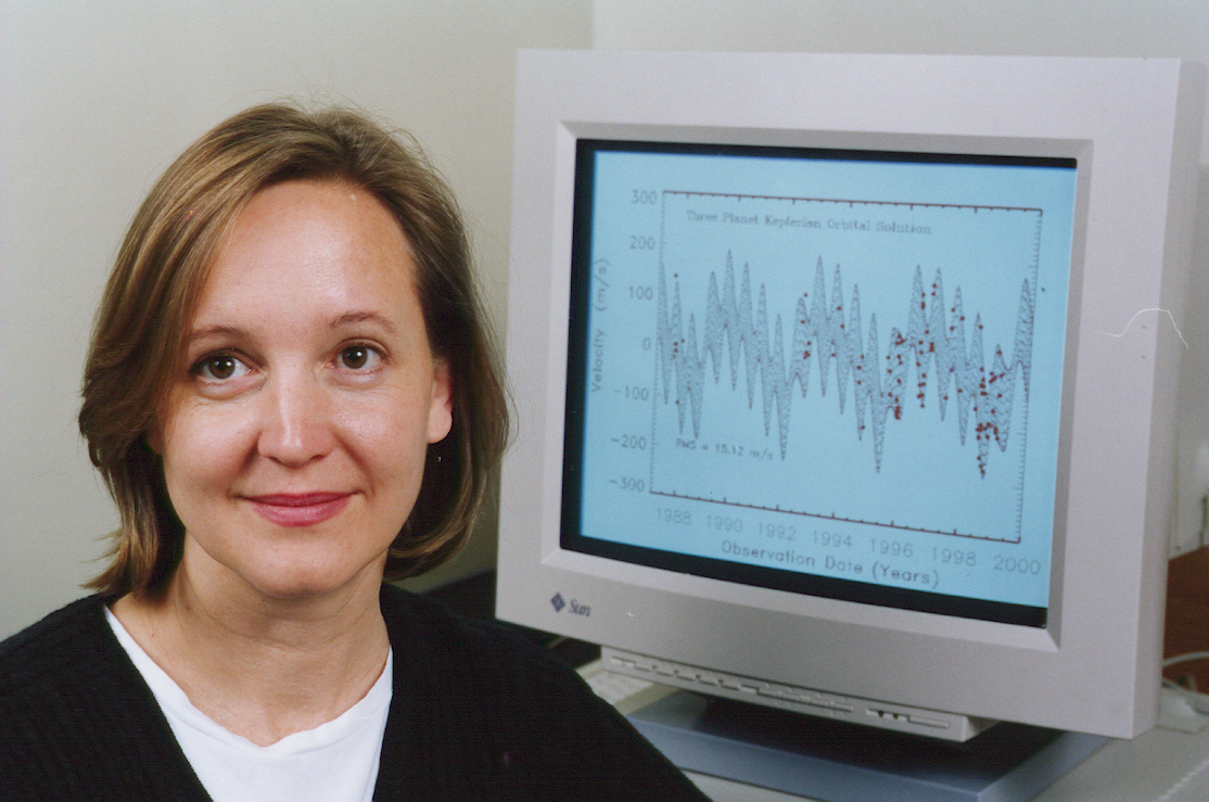 Debra Fischer at work.Depicted person: Debra Fischer – astronomer